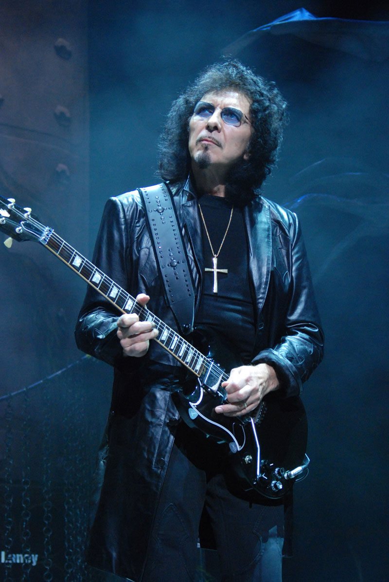 Tony Iommi of Heaven and Hell performs at Chicago's Charter One Pavilion on June 11, 2009. Photo by Adam Bielawki